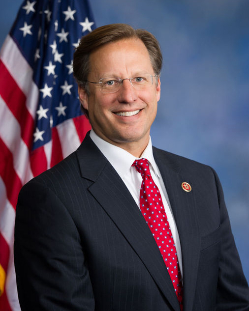 Dave Brat official congressional portrait